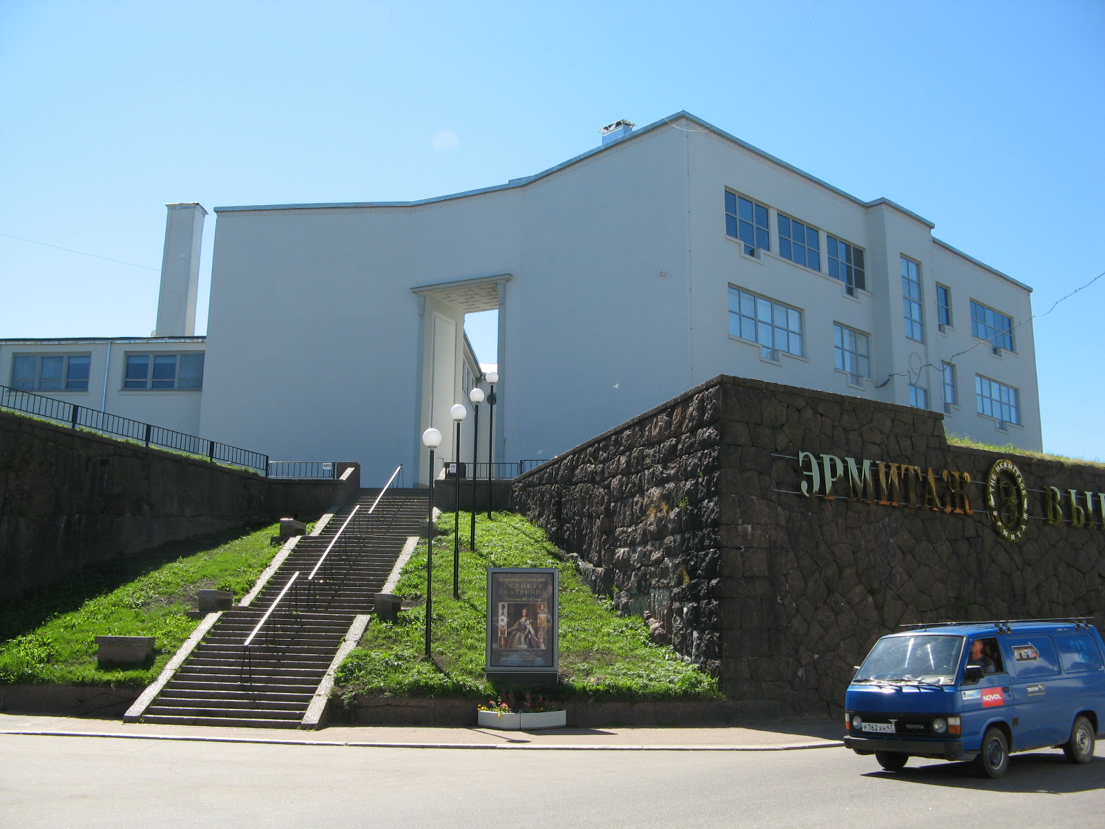 «Hermitage-Vyborg» museum center.